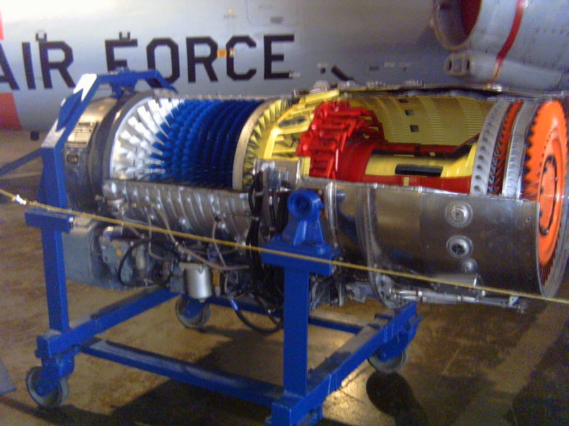 A cut-away of a J46-WE-6 at the Wings Over the Rockies Air and Space Museum, Denver, Colorado (USA).